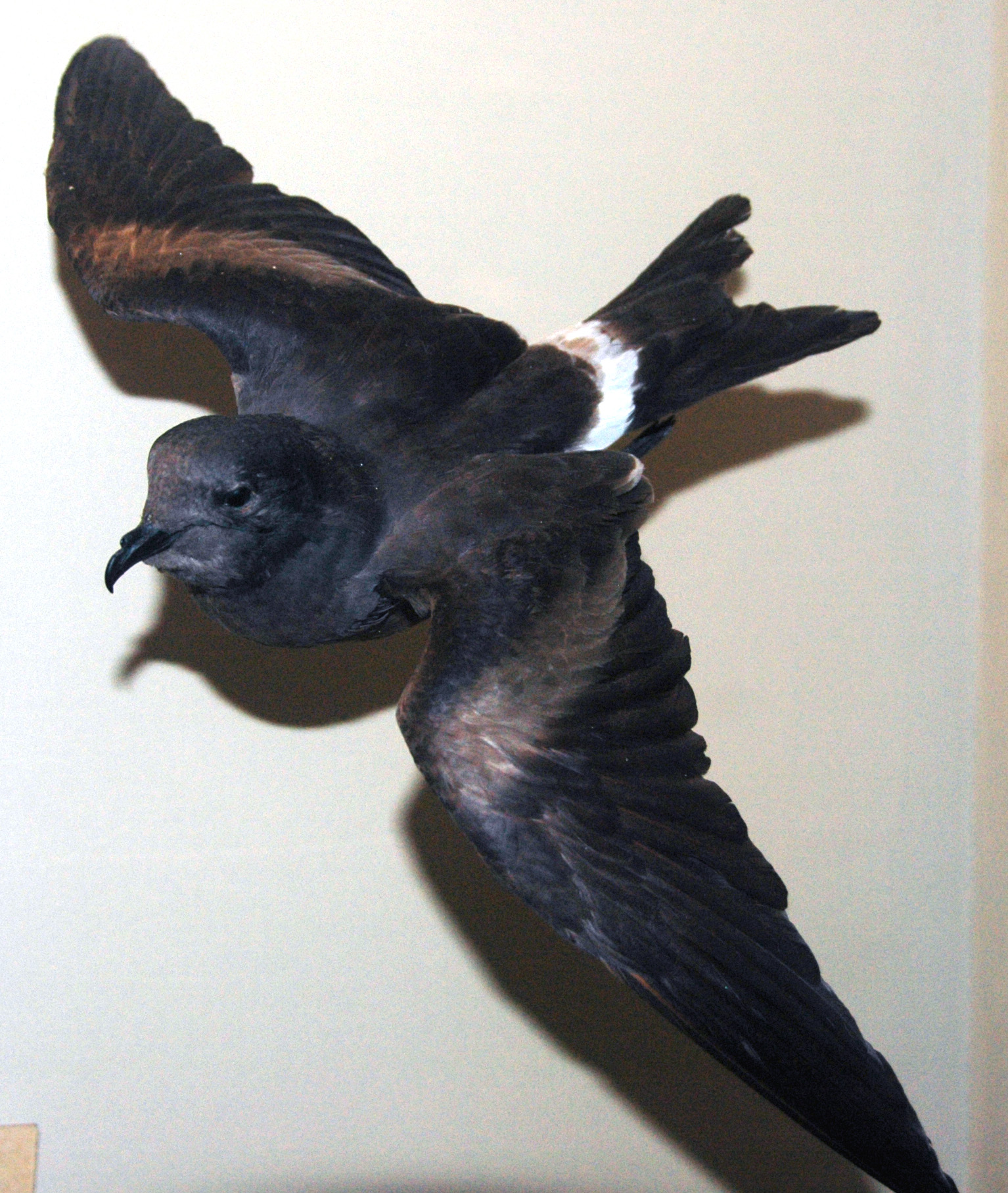 Oceanodroma macrodactyla Bryant, 1887 - male Guadalupe petrel (mount, FMNH 33449, Field Museum of Natural History, Chicago, Illinois, USA). The procellariiform birds are the albatrosses and petrels, seabirds that are frequently over the open-ocean. The Guadalupe petrel is a recently-extinct bird wiped out by human-introduced cats onto Guadalupe Island, a couple hundred miles offshore from the western shore of Baja California, Mexico. The island was the species’ only nesting locality. Petrels are principally oceanic piscivores (fish eaters), but also feed on small nekto-planktonic marine arthropods. Classification: Animalia, Chordata, Vertebrata, Aves, Procellariiformes, Hydrobatidae Birds are small to large, warm-blooded, egg-laying, feathered, bipedal vertebrates capable of powered flight (although some are secondarily flightless). Many scientists characterize birds as dinosaurs, but this is consequence of the physical structure of evolutionary diagrams. Birds aren’t dinosaurs. They’re birds. The logic & rationale that some use to justify statements such as “birds are dinosaurs” is the same logic & rationale that results in saying “vertebrates are echinoderms”. Well, no one says the latter. No one should say the former, either. However, birds are evolutionarily derived from theropod dinosaurs. Birds first appeared in the Triassic or Jurassic, depending on which avian paleontologist you ask. They inhabit a wide variety of terrestrial and surface marine environments, and exhibit considerable variation in behaviors and diets.